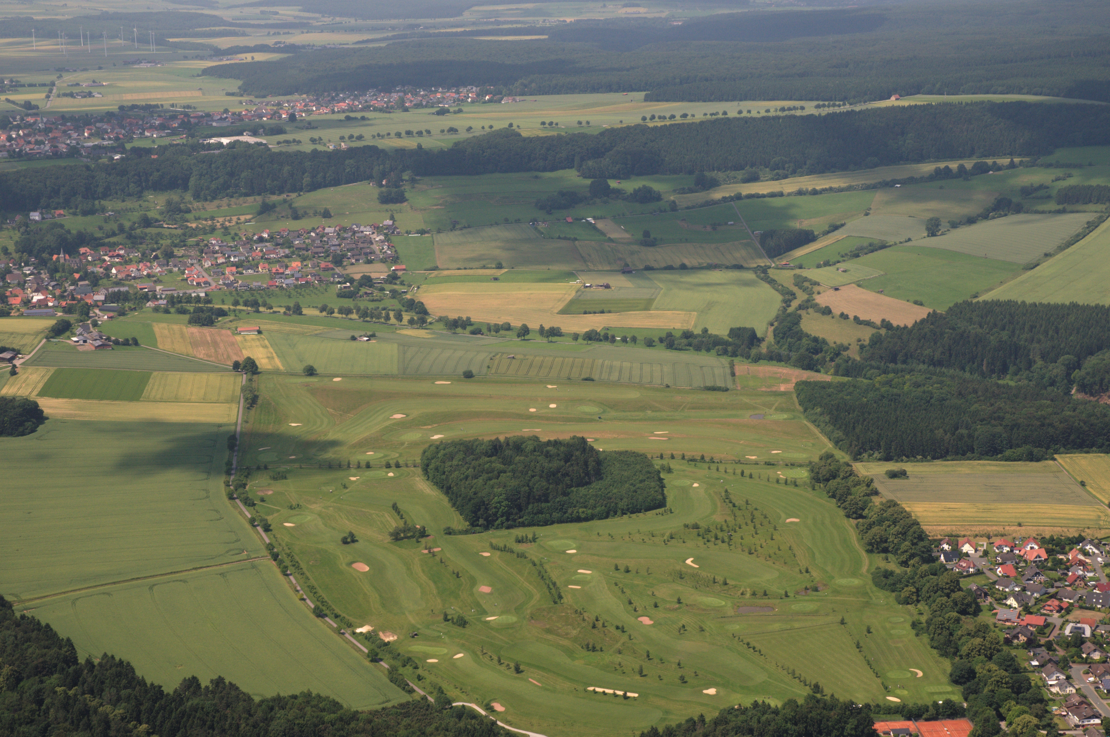 Fotoflug Sauerland-Ost, Marsberg-Westheim, Golfplatz des TuS Westheim und rechts Teile von Oesdorf The making of this document was supported by the Community-Budget of Wikimedia Germany.